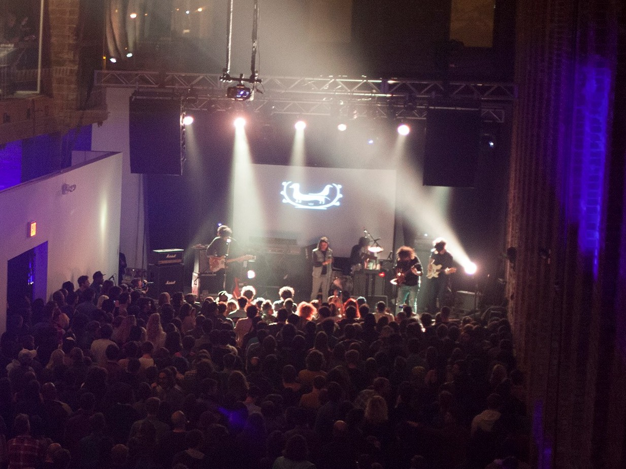 Ariel Pink performs at Pioneer Works.